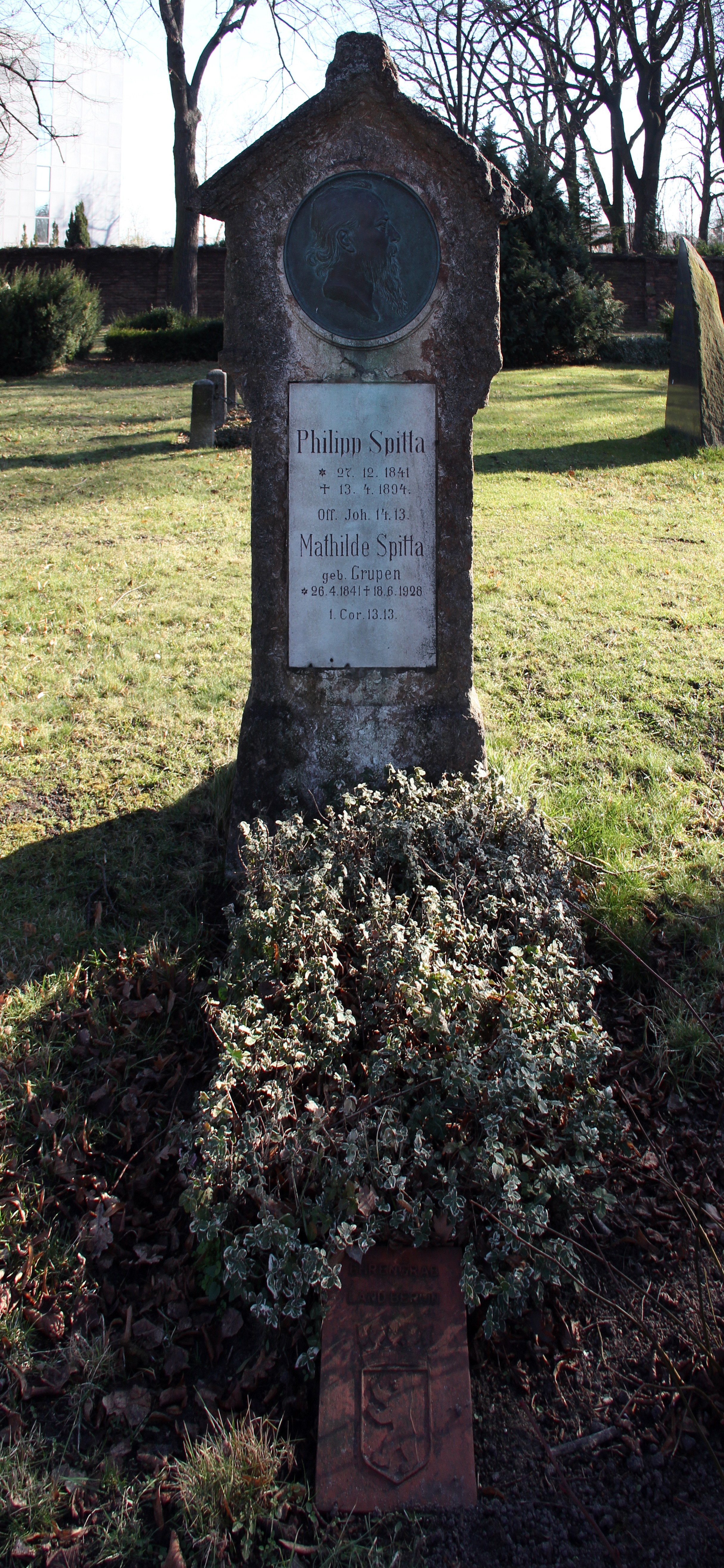 Grave of honor, Philipp Spitta, Werdauer Weg 5, Berlin-Schöneberg, Germany